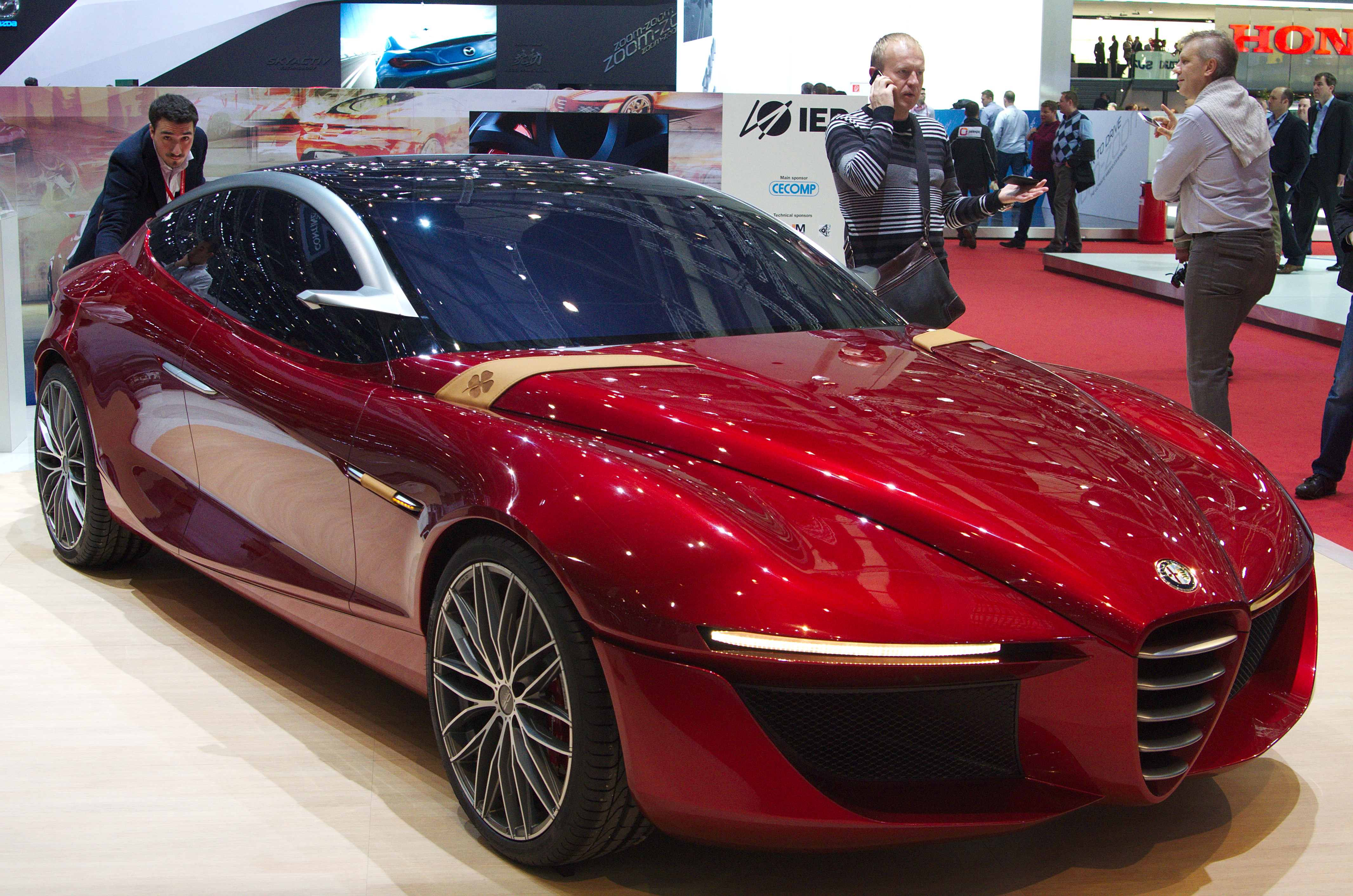 Geneva MotorShow 2013 - IED Alfa Romeo Gloria Concept